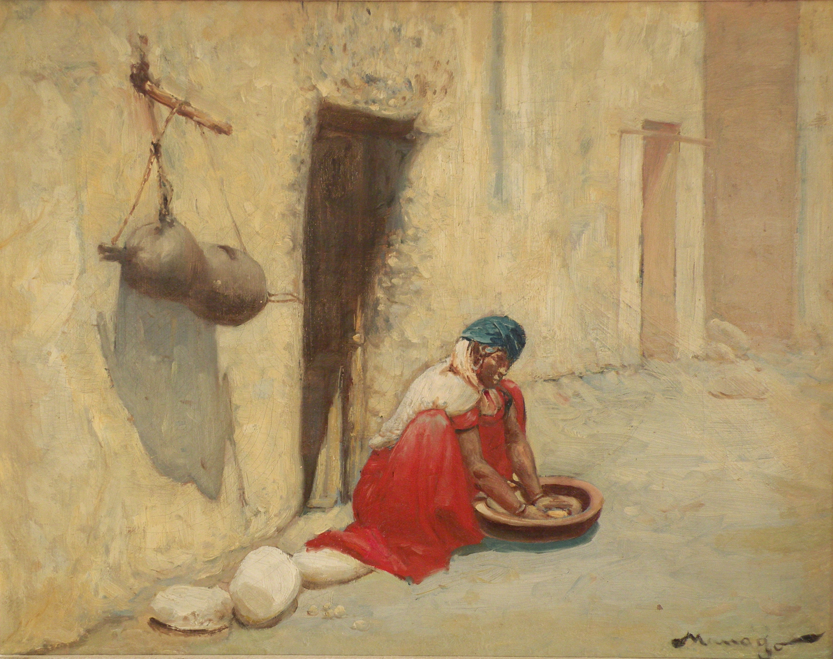 Vincent Manago (1880-1936). Femme préparant le couscous, Algérie (Woman preparing couscous, Algeria). Oil on canvas, 46x36 cm.